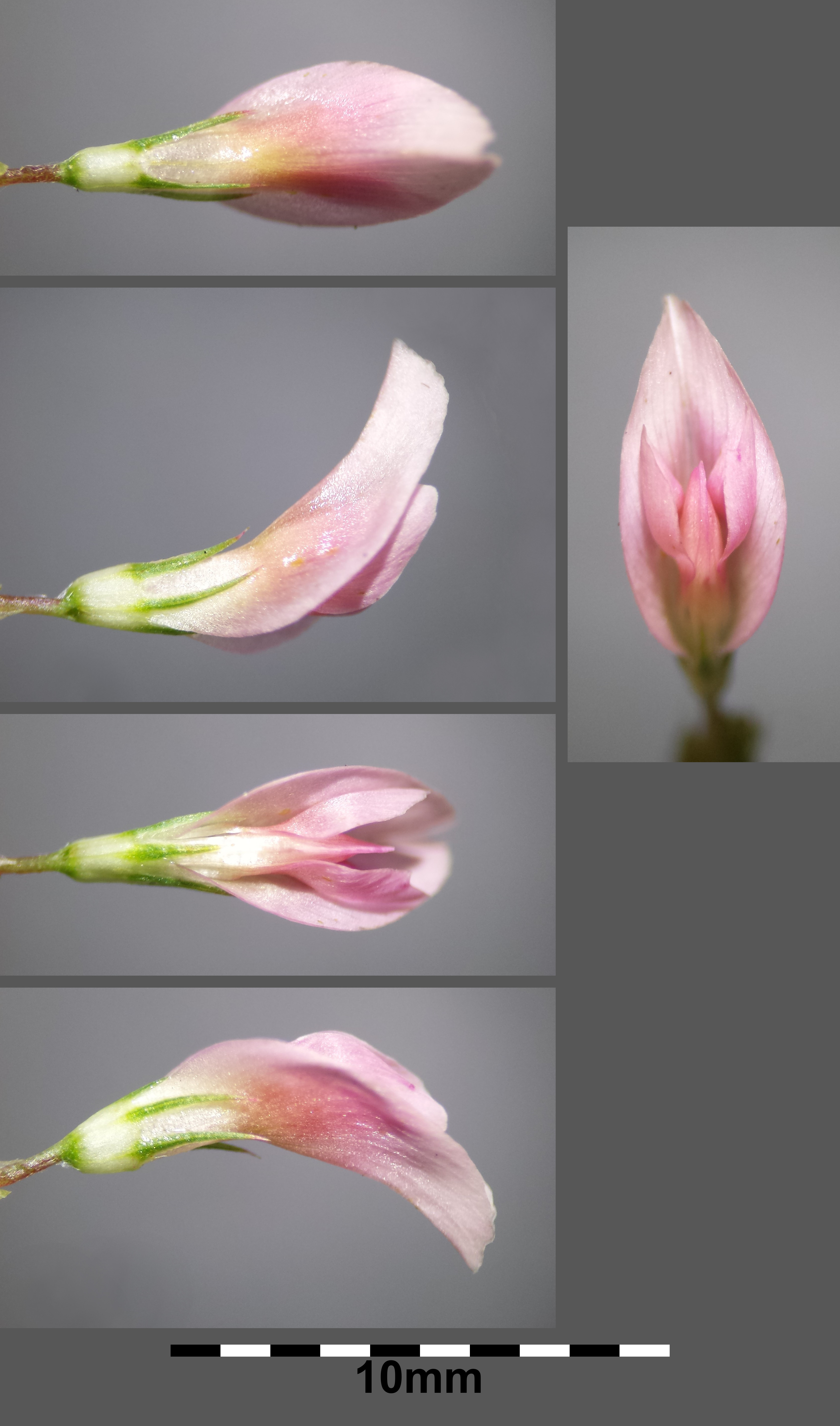 Flower Taxonym: Trifolium hybridum subsp. hybridum ss Fischer et al. EfÖLS 2008 ISBN 978-3-85474-187-9 Location: near Komau, district Freistadt, Upper Austria - ca. 850 m a.s.l. Habitat: ruderal area